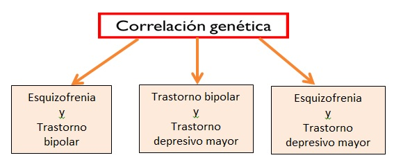 Esquema que representa los dos principales pares de trastornos que muestran mayor correlación genética.